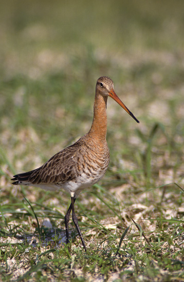 Black-tailed Godwit